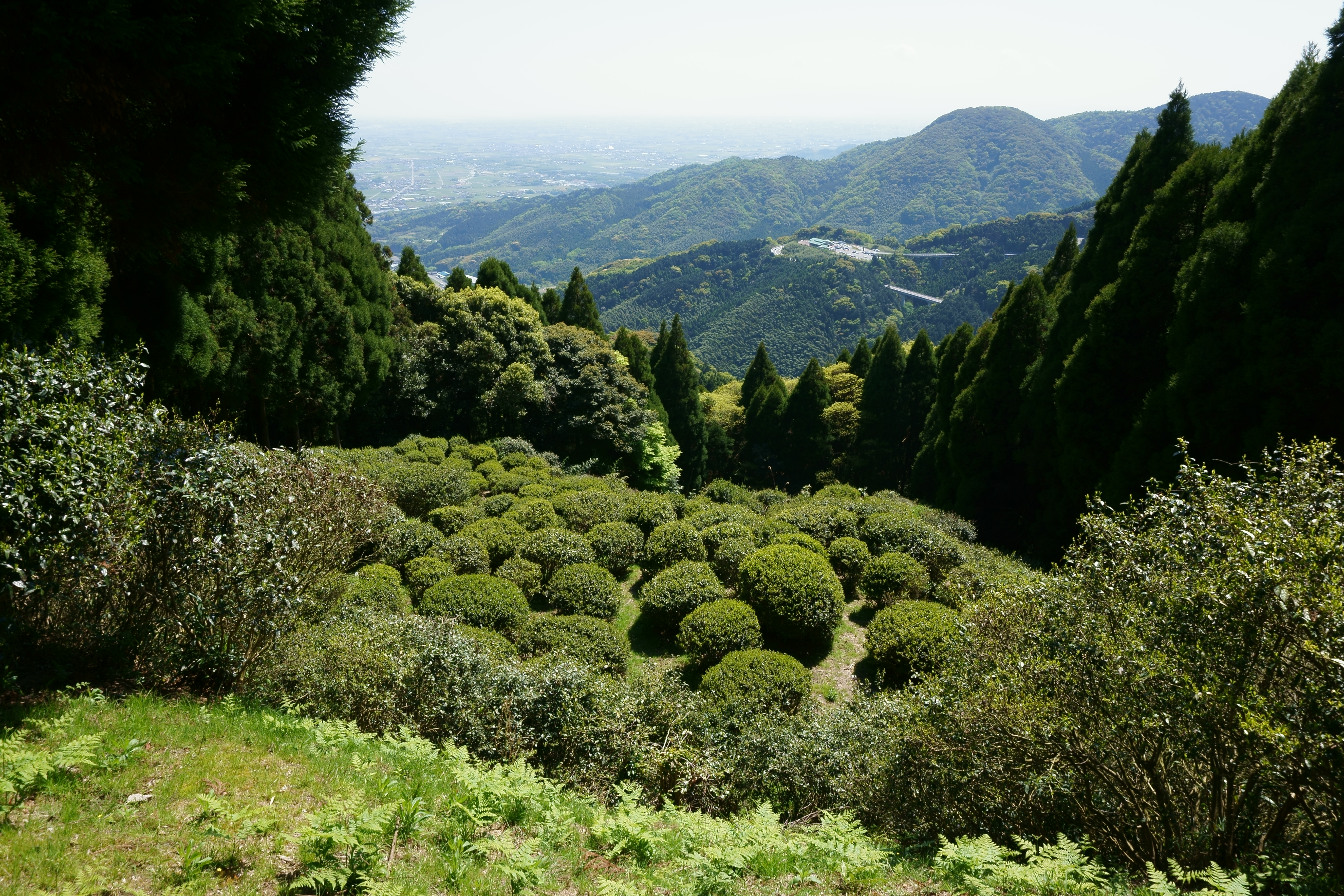 Tea plants at former Ryōsen-ji Temple site, in Yoshinogari town, Saga prefecture.